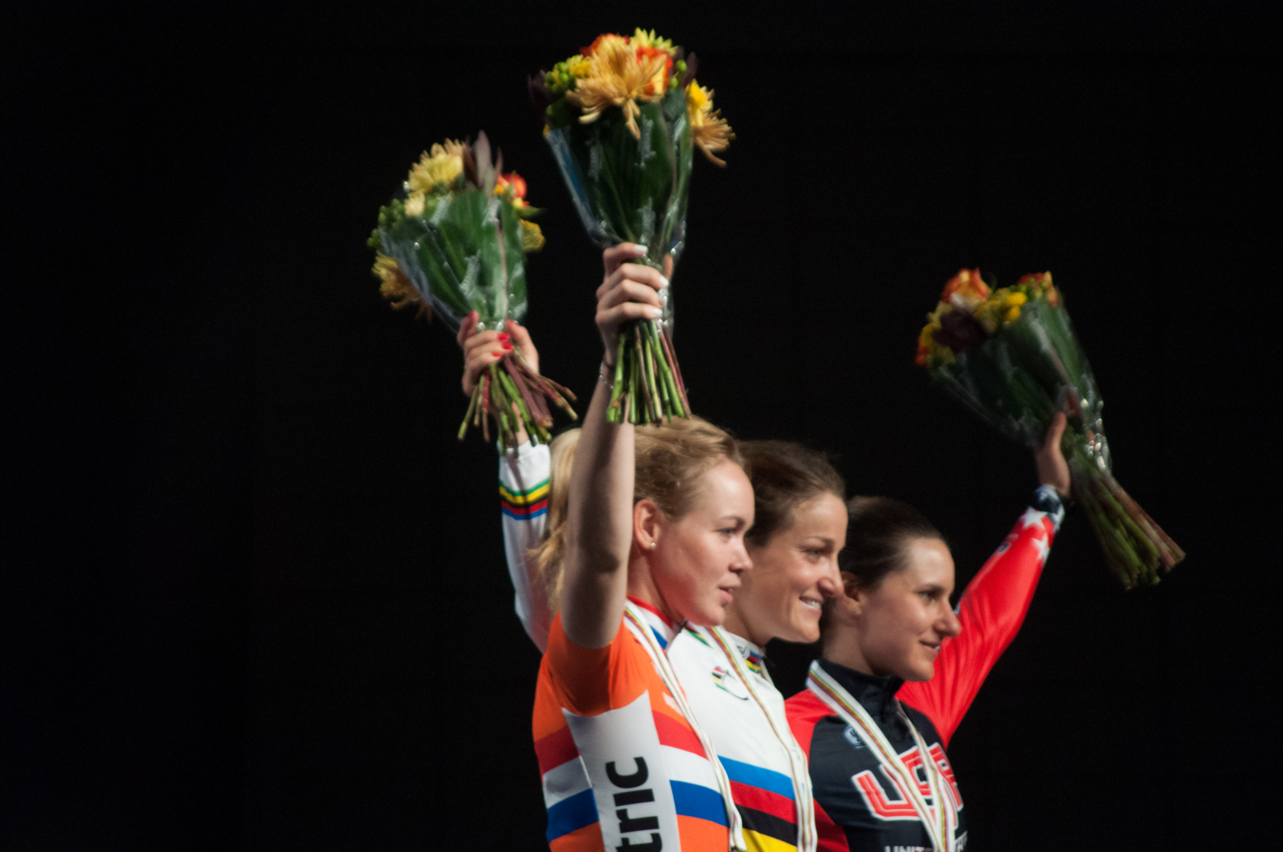 A photo of the winners of the 2015 UCI world championships women's road race.